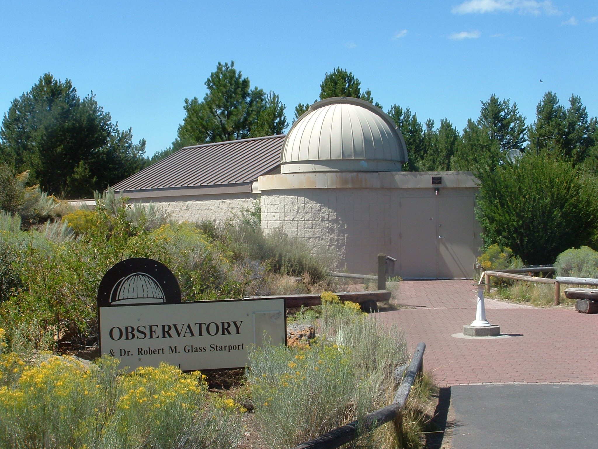 The outside of the Sunriver Observatory